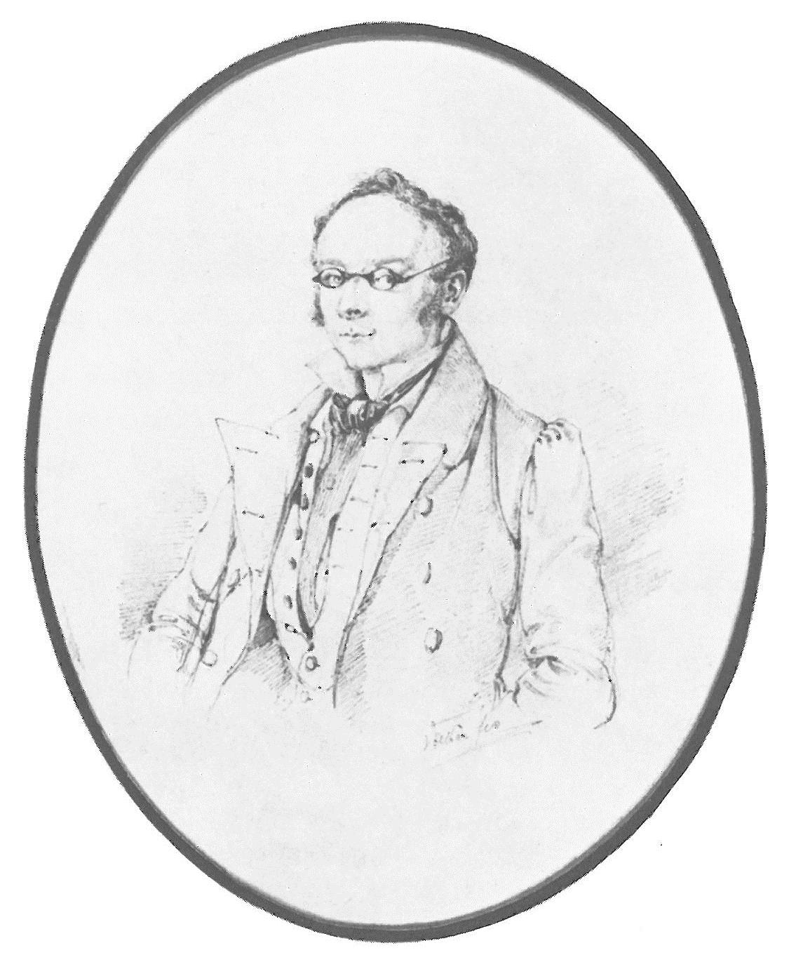 Ludwig Kolb (1806–1875), judicial officer in Rottenburg am Neckar and veduta drawer